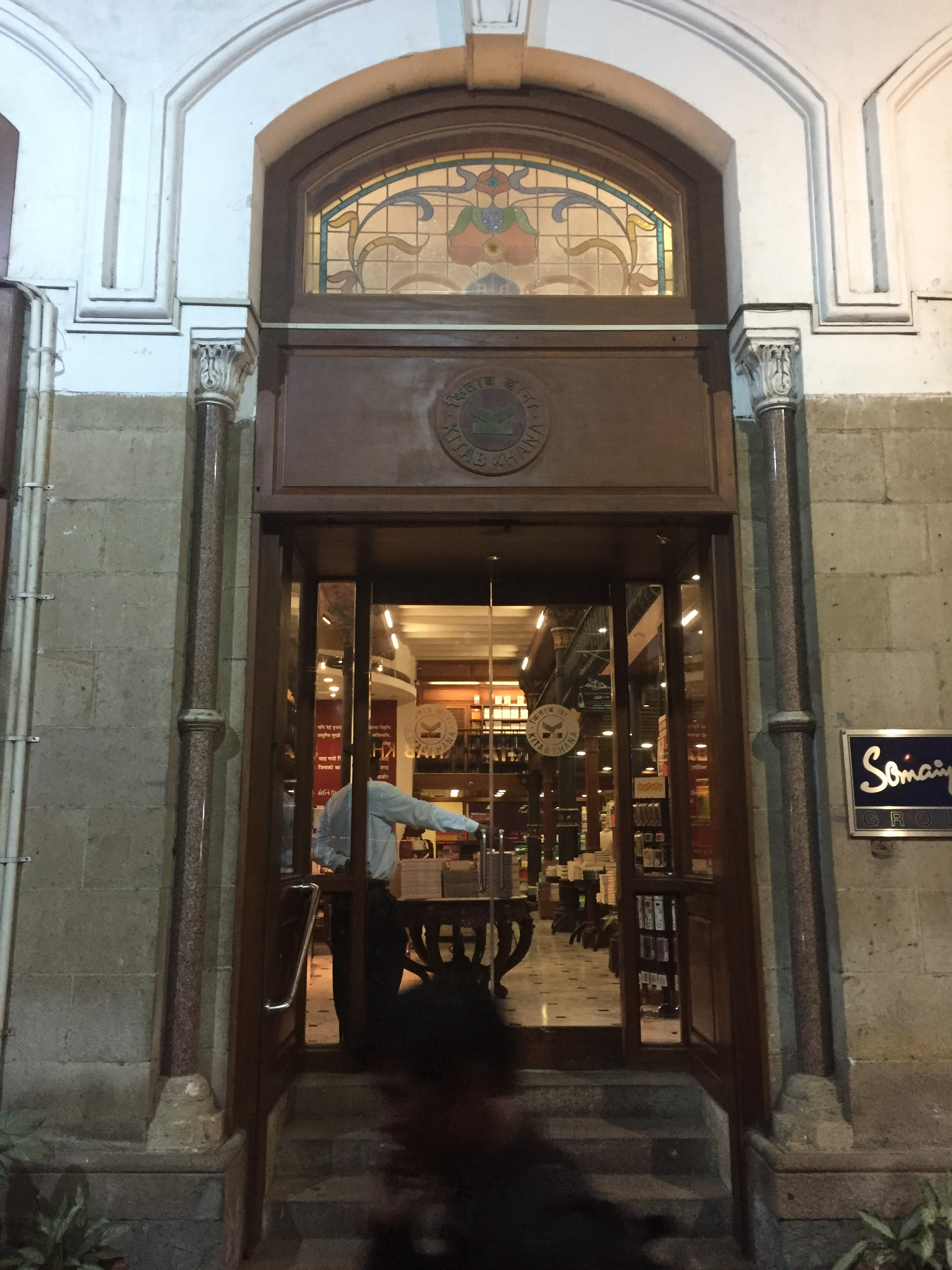 Kitab Khana Bookshop Mumbai - outer view